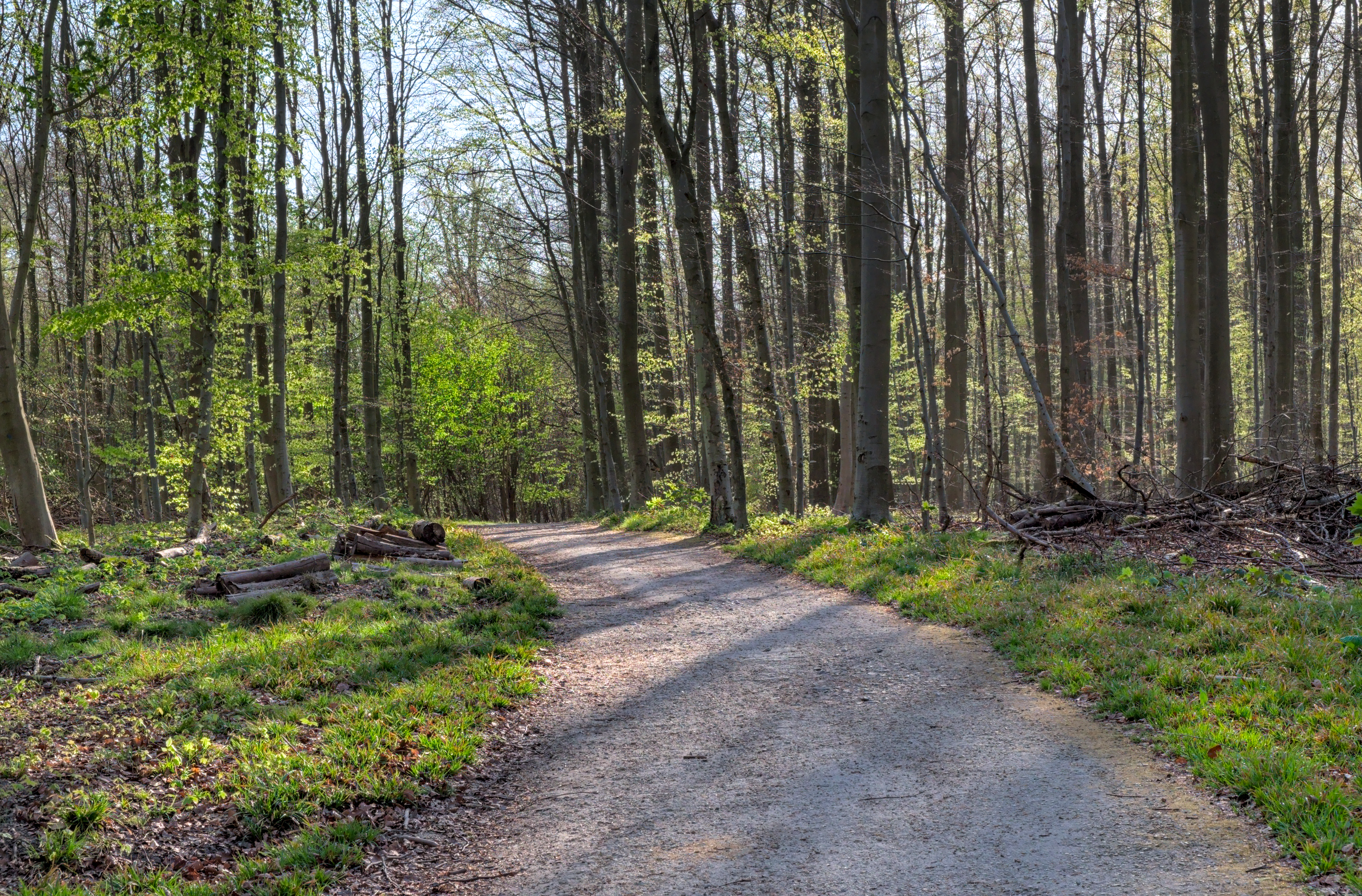 Chemin de Diependelle in the Sonian Forest